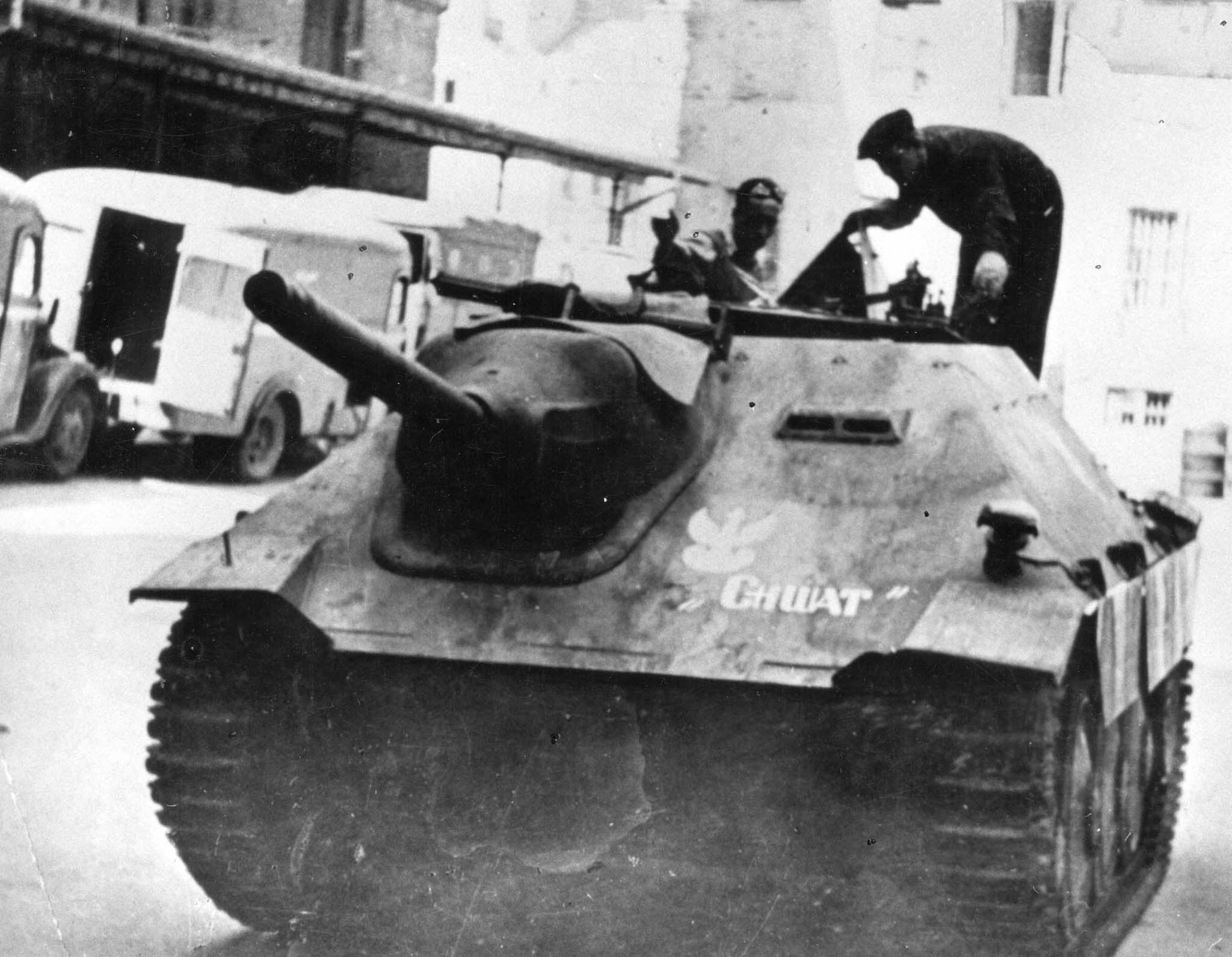 Warsaw Uprising: Repaired "Chwat" at the courtyard of the Main Post Office. On top from the left: "Asko" and a welder send to help from insurgent power plant. "Chwat" was a German Jagdpanzer 38(t) "Hetzer" tank destroyer captured by the Home Army soldiers during fights around Main Post Office. Initially heavily damaged and build into a barricade, but later fixed and kept operational until lost under ruins of the postal building.